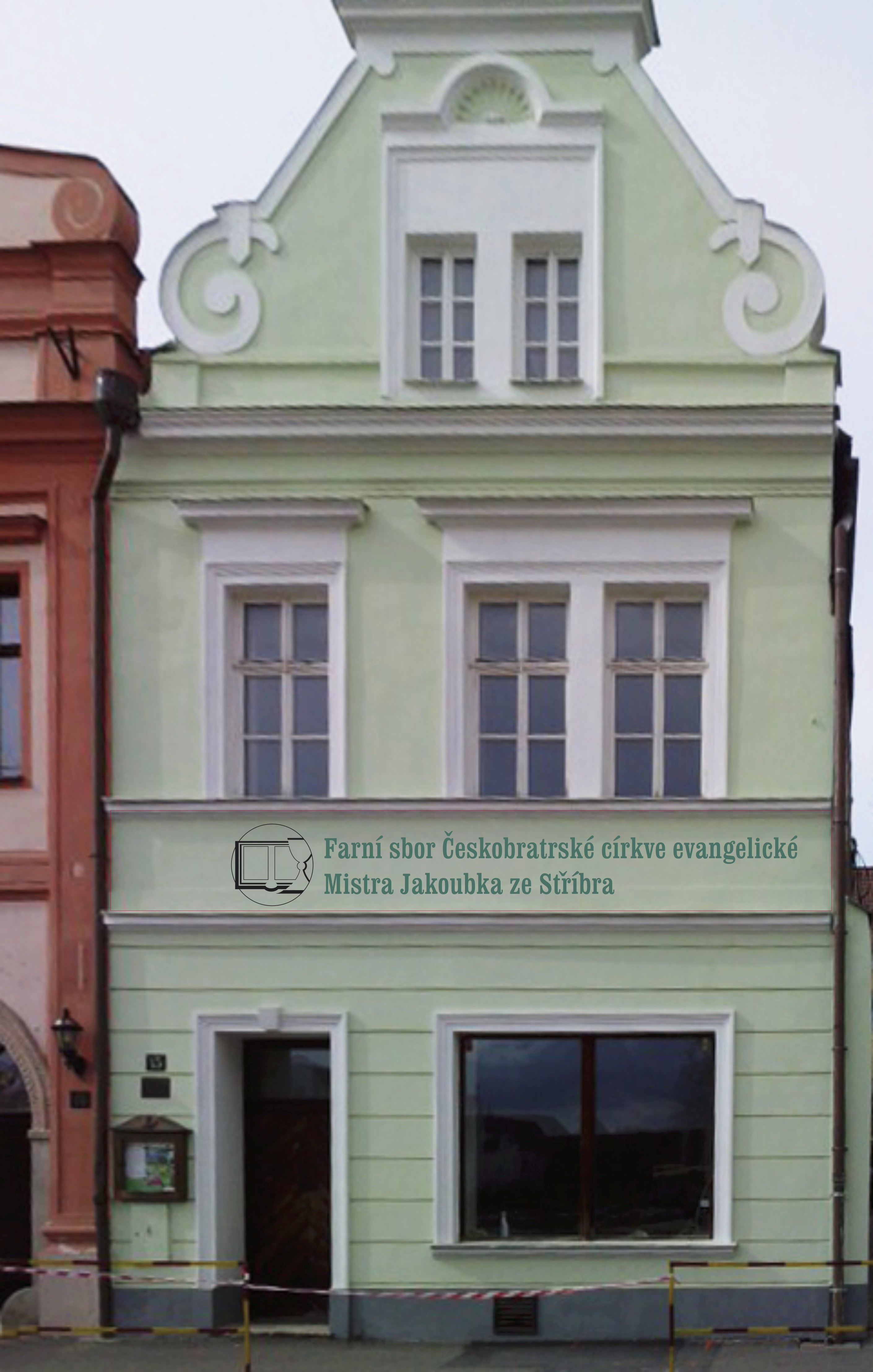 Evangelical church in Stříbro, Czech Republic.